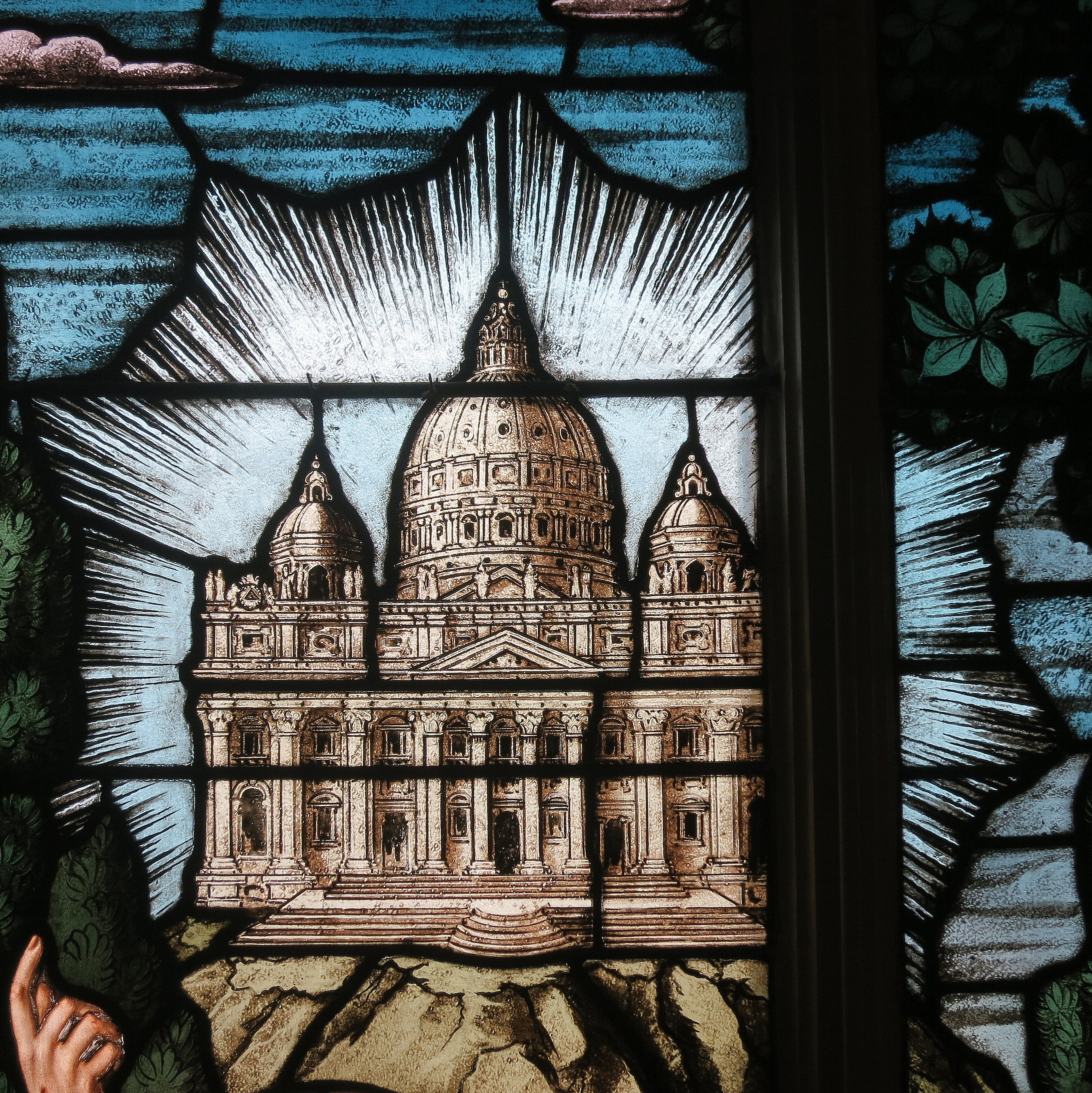 Saint Raphael Catholic Church (Springfield, Ohio) - stained glass, Upon this Rock, detail - St. Peter's Basilica